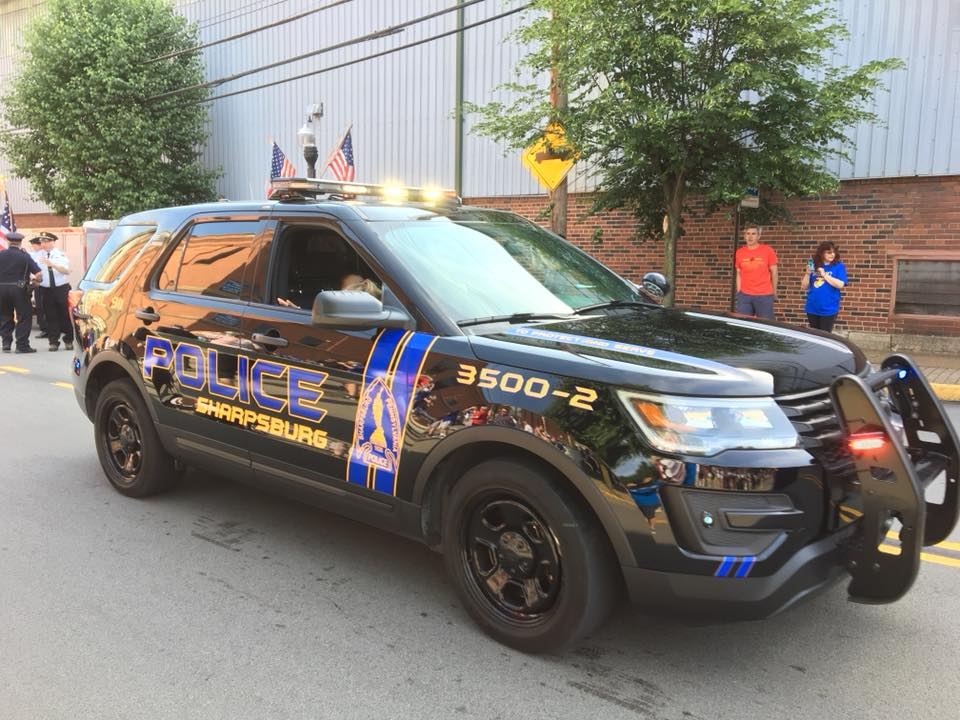 SPD 3500-02